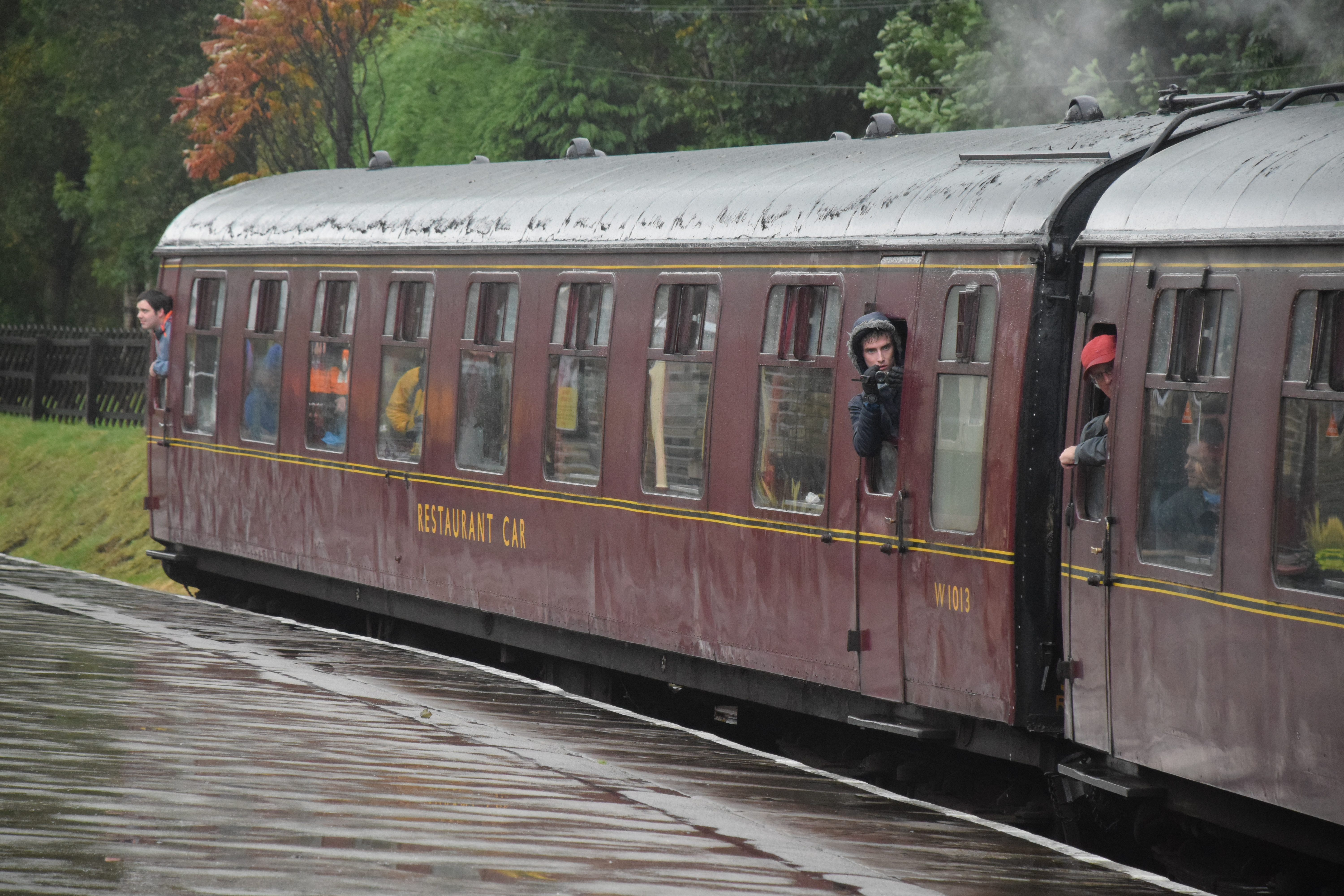 BR Mk1 Restaurant Second Open built 1951. No.W1013.